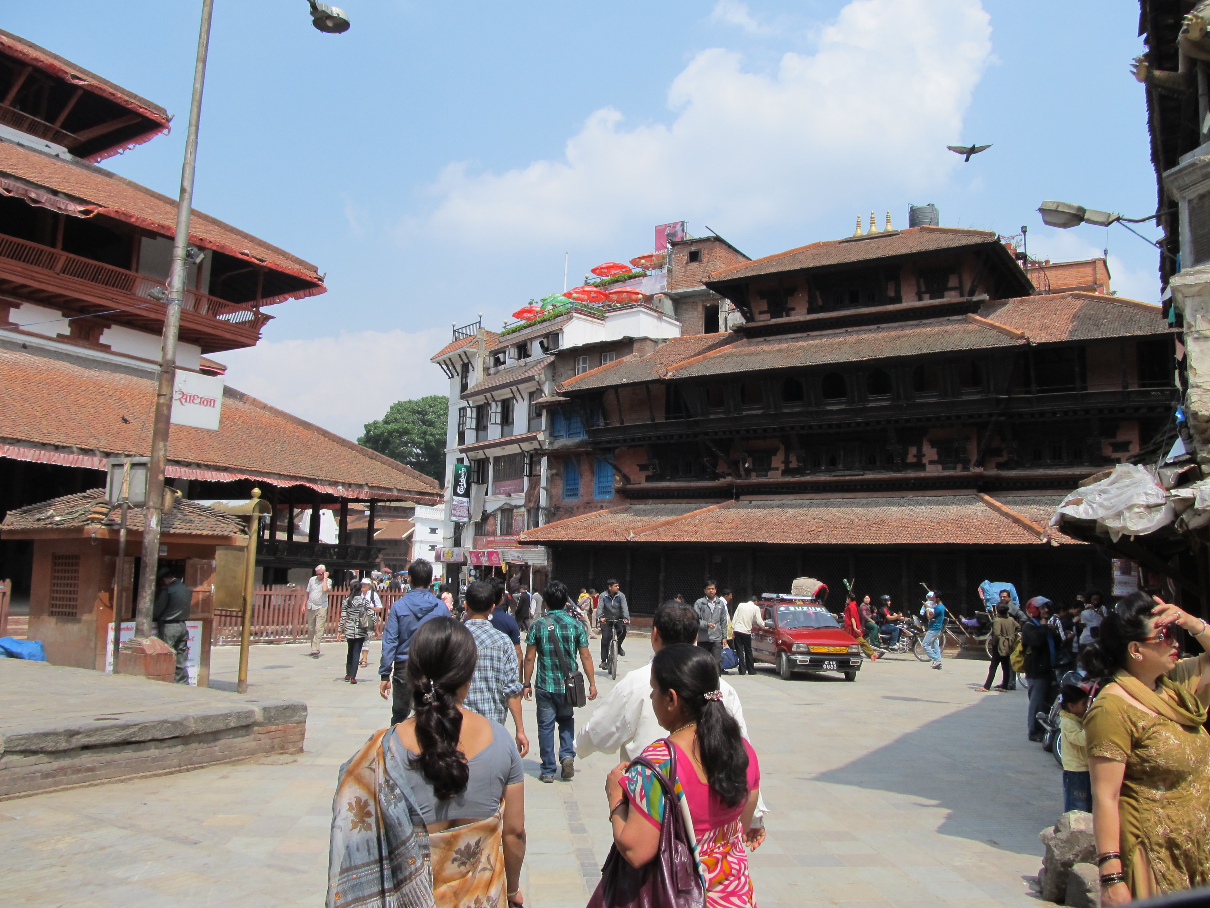 Entering Kathmandu Darbar at Maru Tol - from left: Kasthamandap, Kavindrapura Sattal